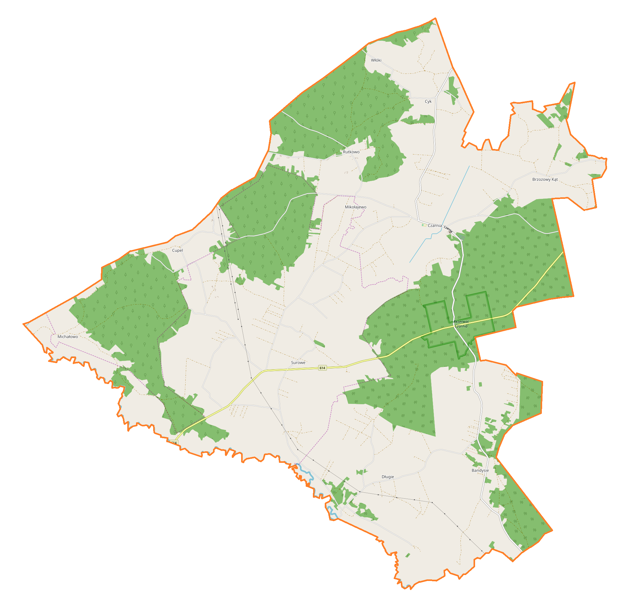 Map of Gmina Czarnia, Poland This map of Czarnia (gmina) was created from OpenStreetMap project data, collected by the community. This map may be incomplete, and may contain errors. Don't rely solely on it for navigation.